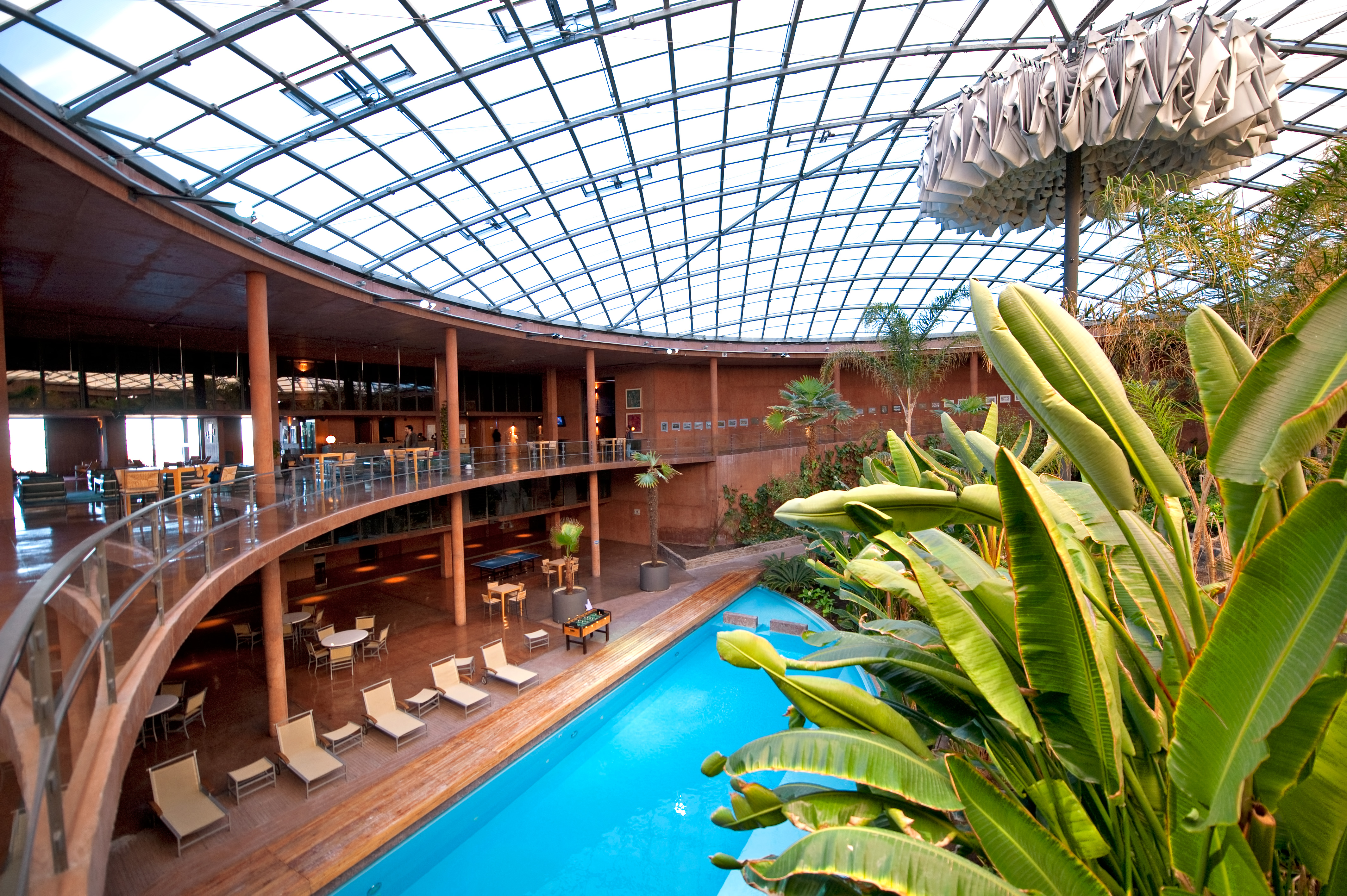 Panoramic view of the central hall at the Paranal Residencia, with a swimming pool and the main indoor garden. The light for this central part of the building comes through a 35-metre-diameter dome in the ceiling. At the centre of the dome, an umbrella-shaped blackout curtain automatically opens at sunset, to avoid any escape of artificial light, potentially dangerous for astronomical observations. The curtain closes automatically at sunrise and remains folded during the day. The garden and the swimming pool keep a certain level of humidity inside the building, providing a more comfortable environment for the people who work at one of the driest sites on Earth. This award-winning construction was designed by German architects Auer+Weber. Credit: ESO/José Francisco Salgado